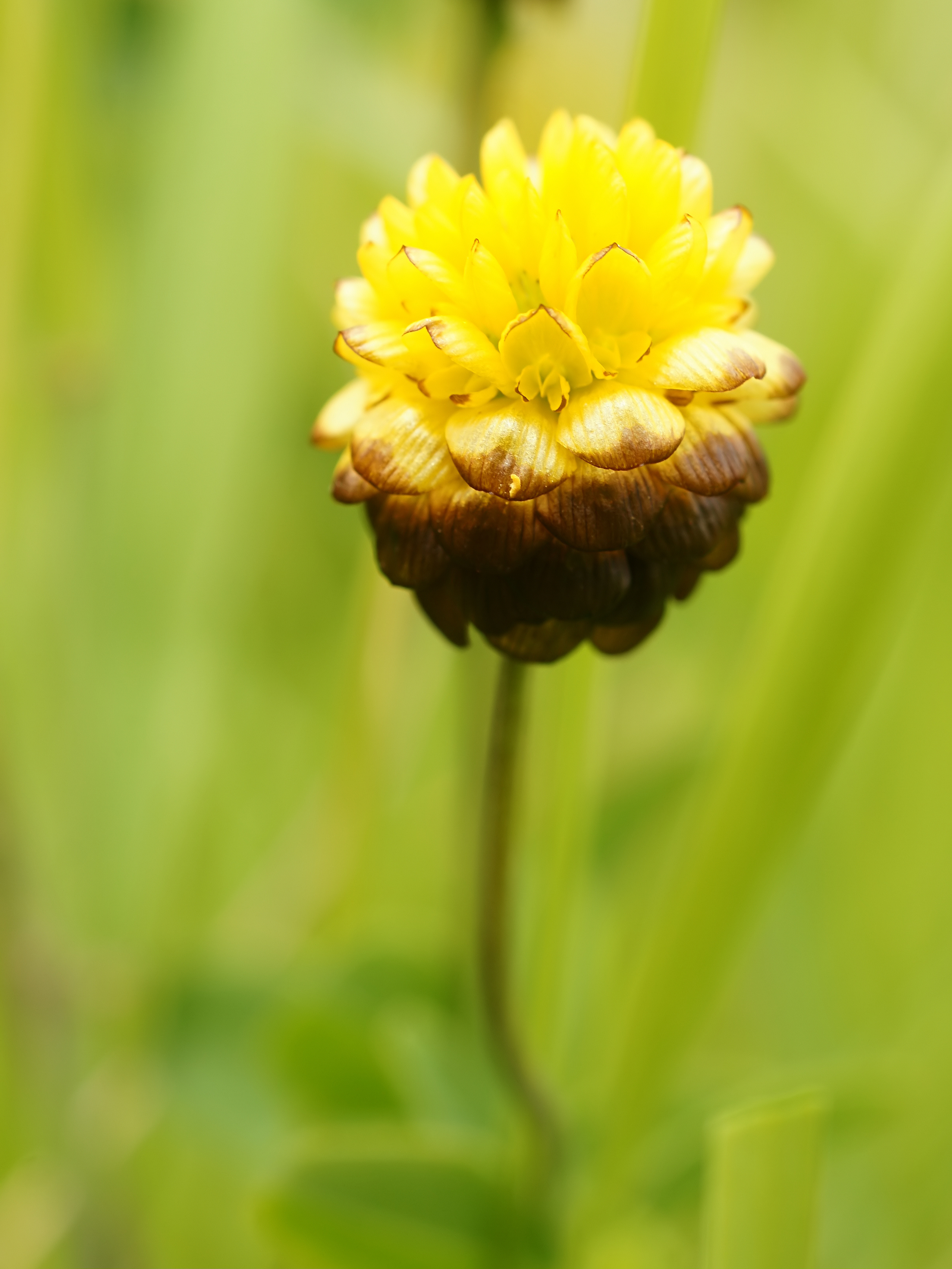 Brown Clover, at Saas Fee, Switzerland